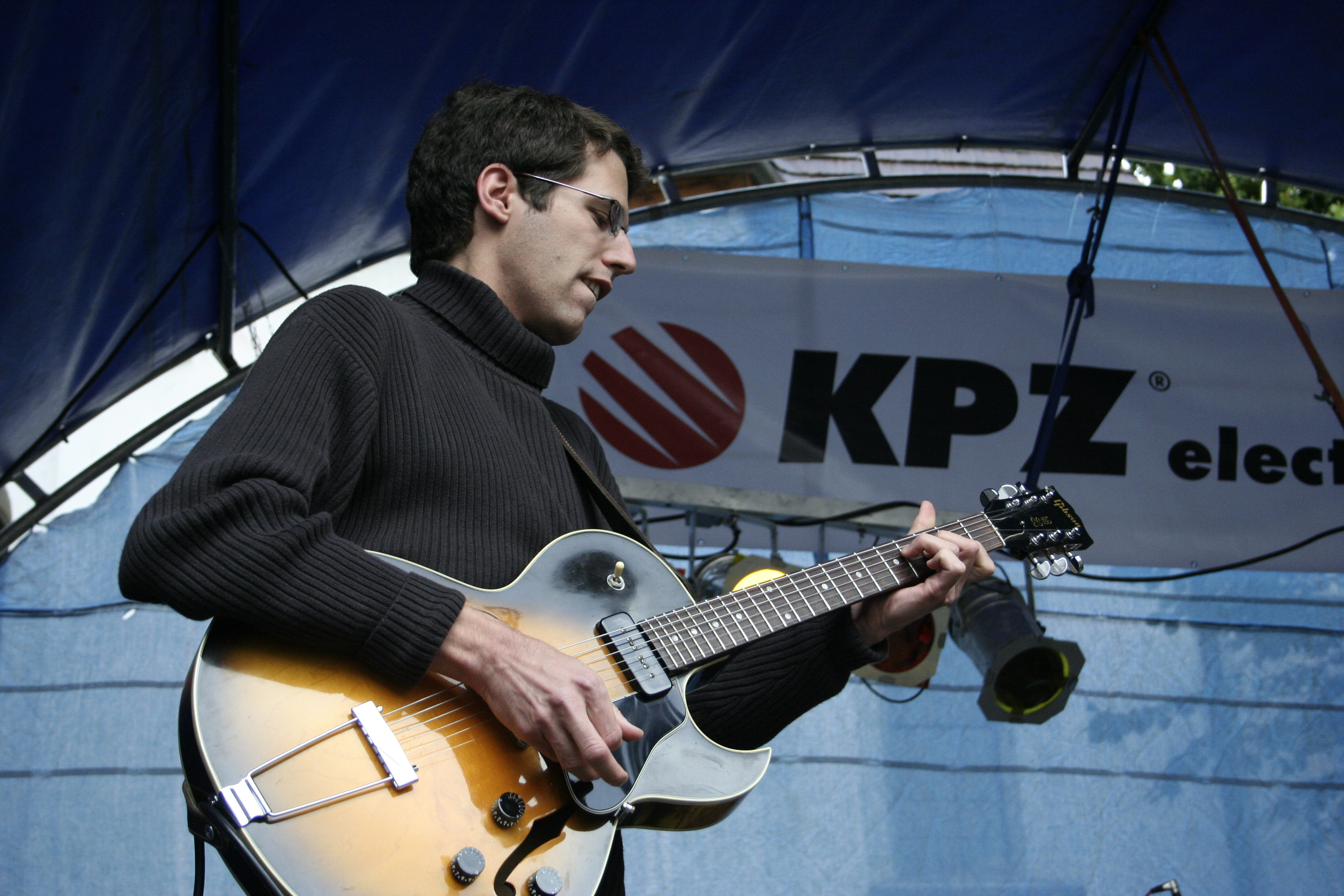 David Dorůžka